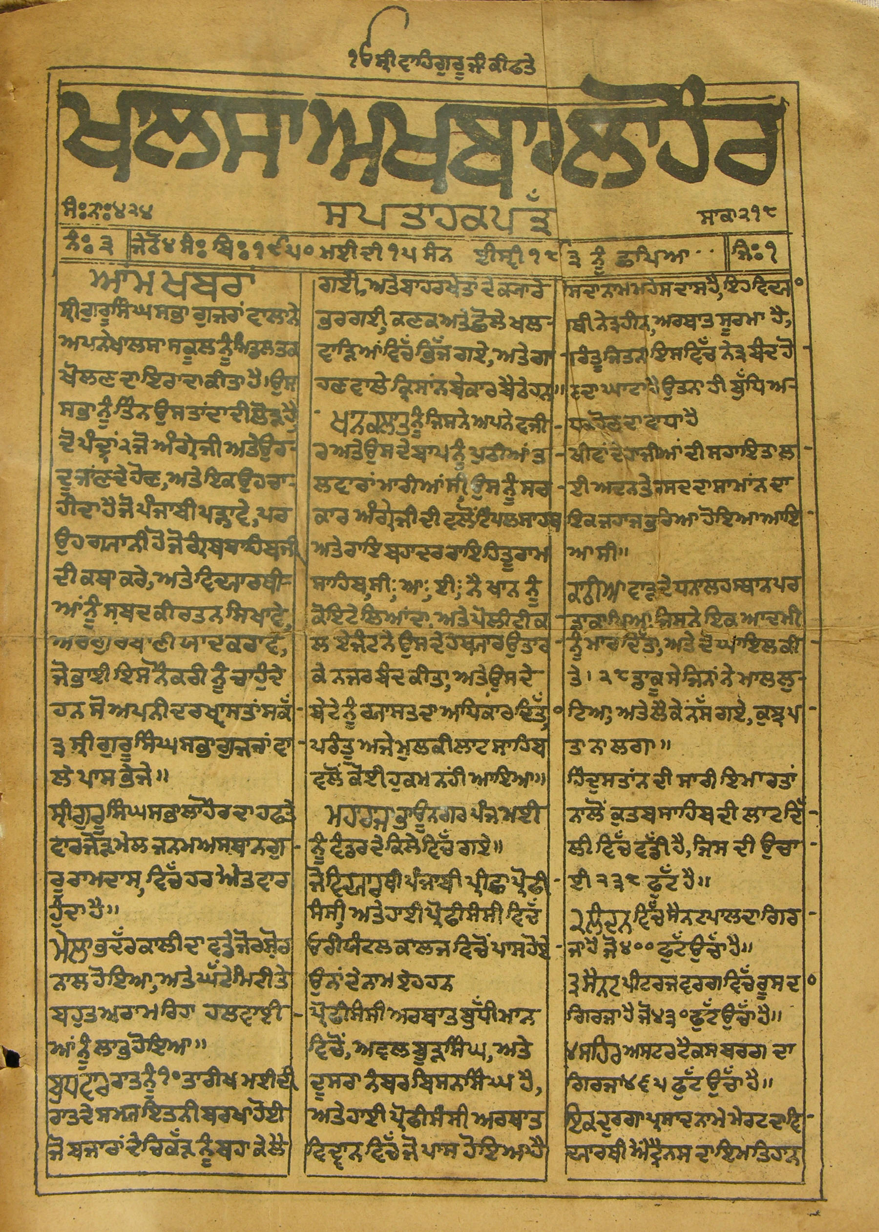 Khalsa Akhbar Lahore dated 15 May 1893